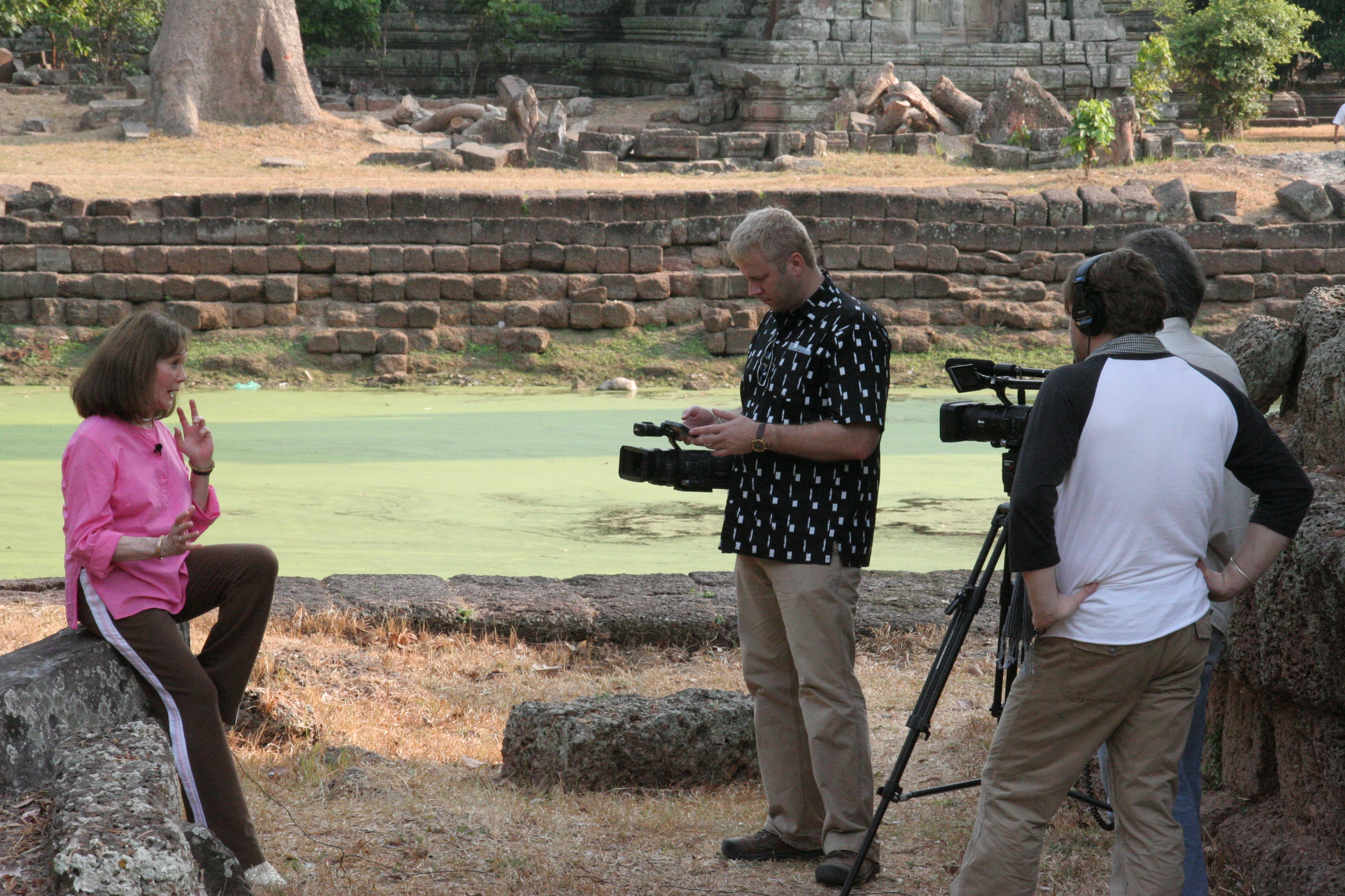 Nancy Kwan was in Cambodia for the documentary To Whom It May Concern: Ka Shen's Journey on March 5, 2007. The photo was taken by the documentary's unit photographer, Jonathan Lee.